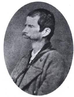 Anton Tožbar (3. 1. 1835, 24. 12. 1891), slovenian alpinist